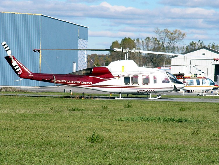 a Bell 214ST (N724HT) at the Carp Airport near Ottawa ON